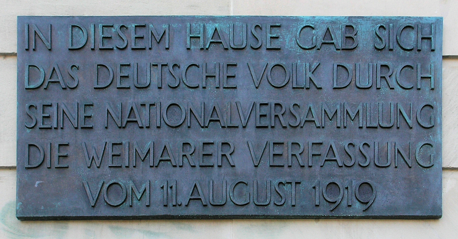 Memorial plaque, Weimarer Verfassung, Theaterplatz, Weimar, Germany Koordinate:52°58′47″N 11°19′32″E / 52.97972°N 11.32556°E